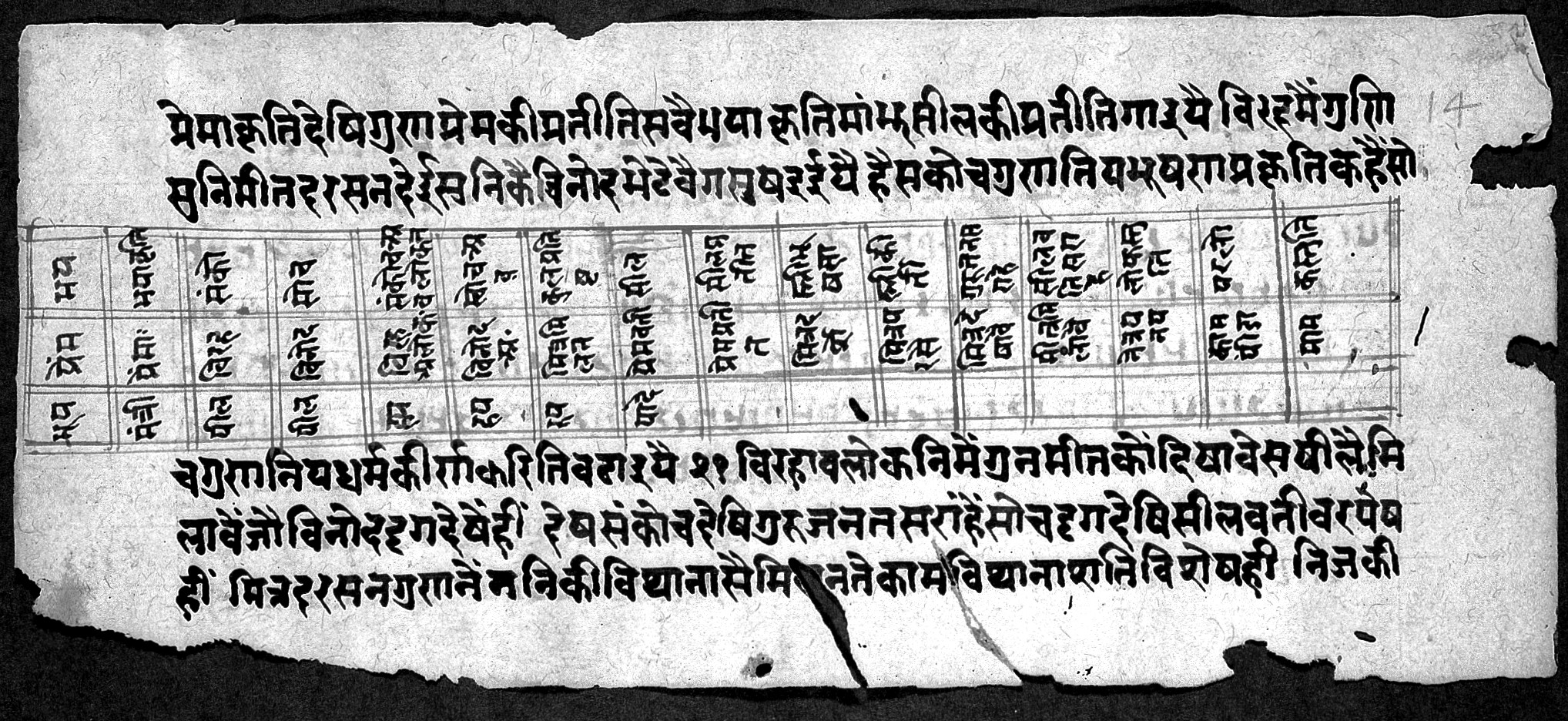 Kesavadasa, Rasika-priya. Text in table format Asian Collection